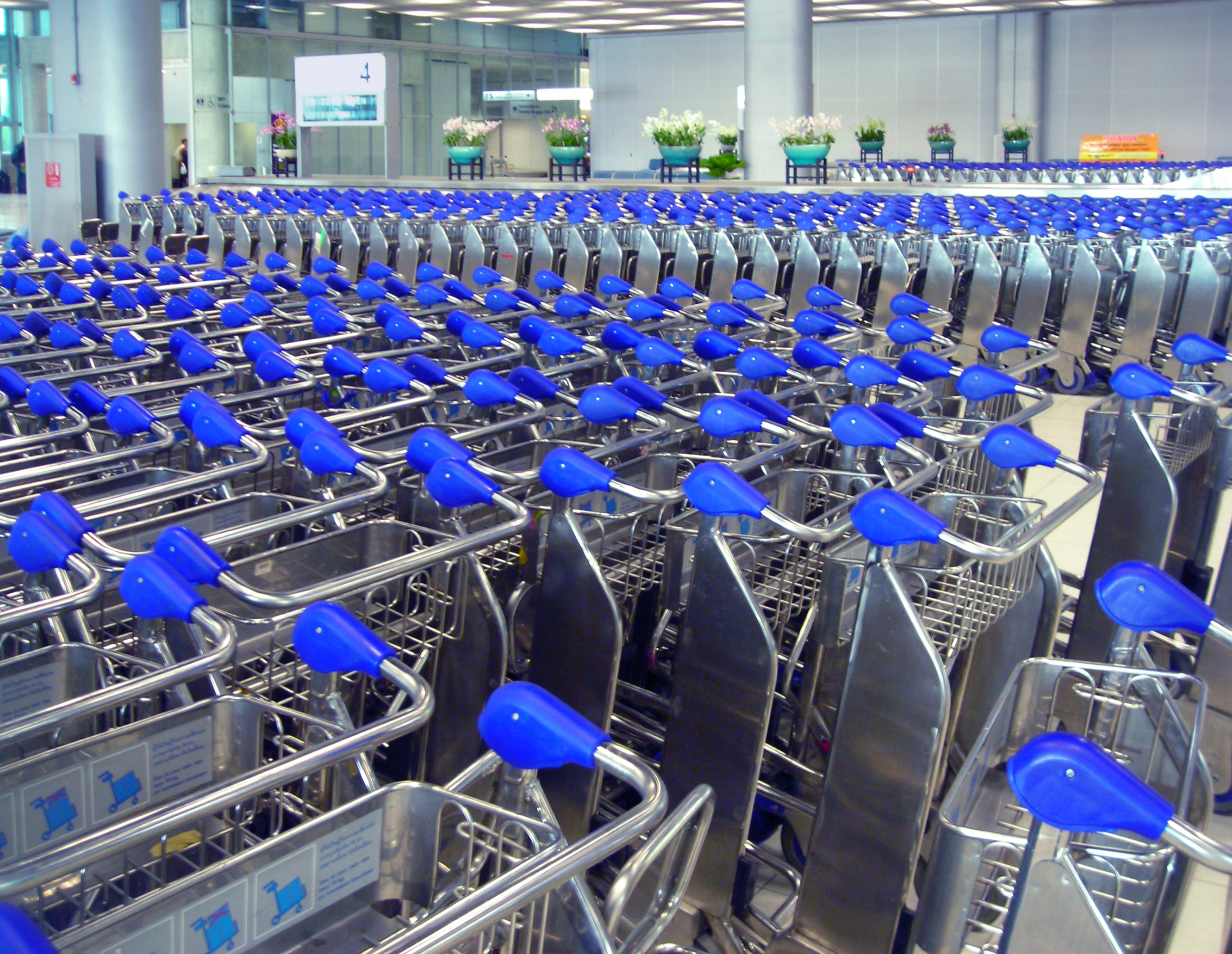 Baggage carts at Suvarnabhumi International Airport, Bangkok.